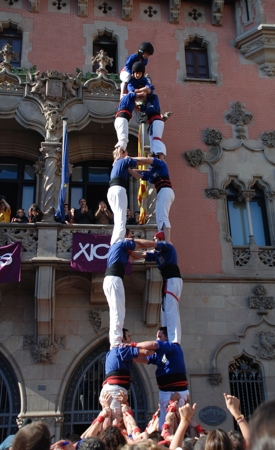 2 de 7 of the Castellers de la Vila de Gràcia en Granollers (2007)